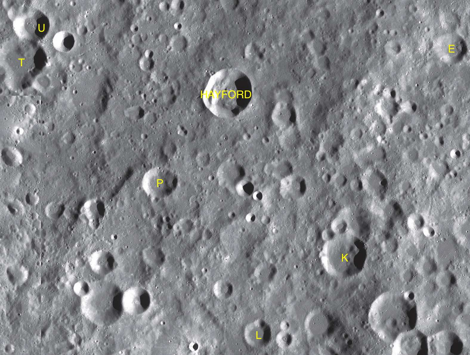 Part of the chart LAC-68